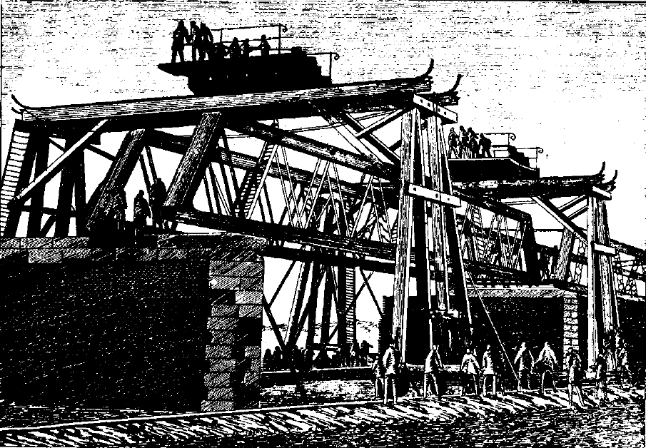 Construction of first Arakawa railway bridge on Tohoku mainline